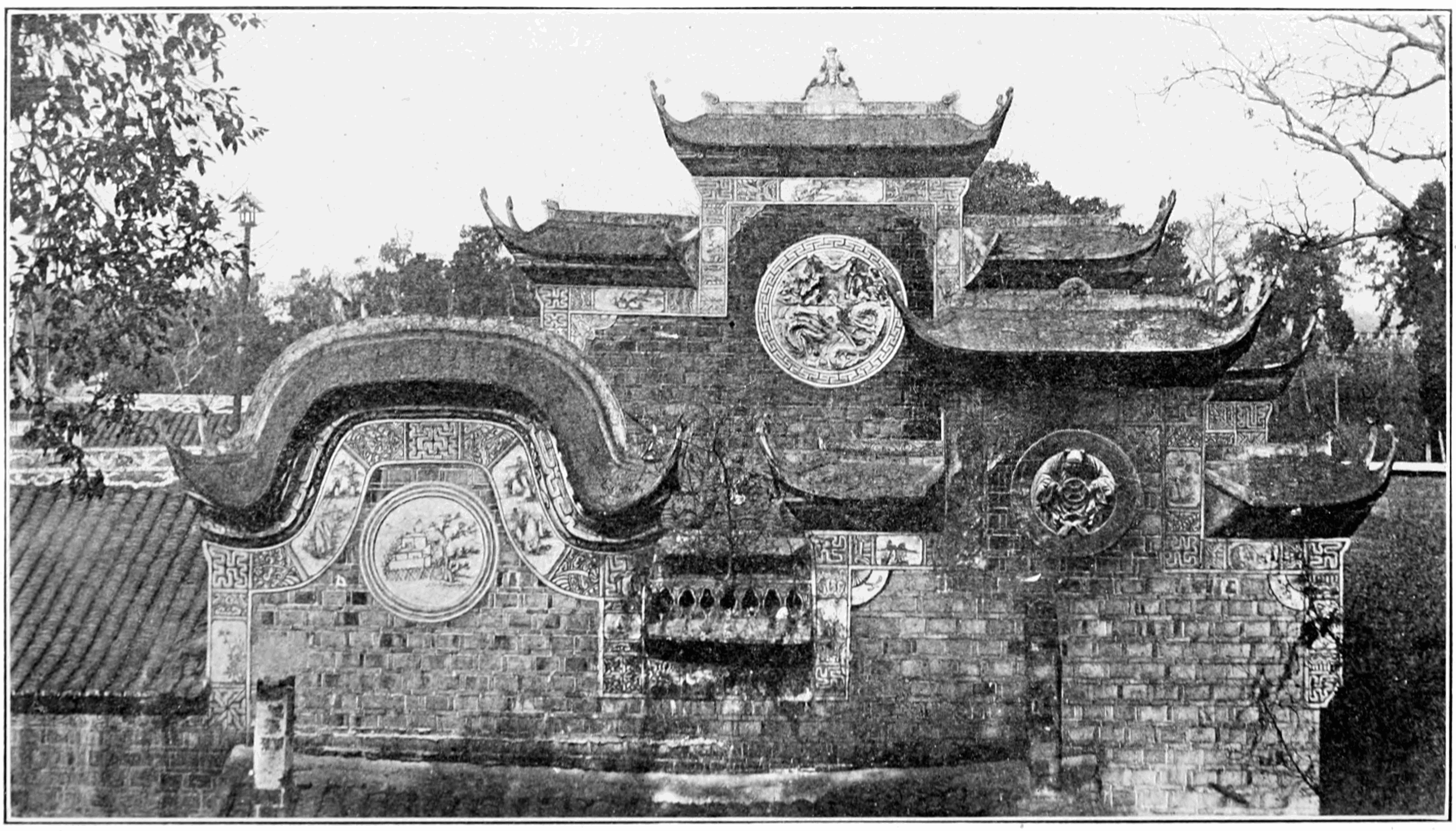 Chinese temple architecture at Hong Hien